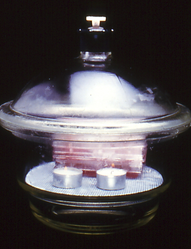 Malaria culture by the original method of W Trager and JB Jensen. The parasites are grown in tissue culture flasks in a low-oxygen atmosphere created by sealing the flasks in a bell jar with burning candles. Trager W, Jensen JB (August 1976). "Human malaria parasites in continuous culture". Science (New York, N.Y.) 193 (4254): 673–5. PMID 781840.